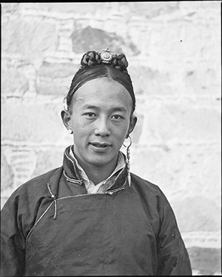 Frederick Spencer Chapman Half length. Lhawang Tobgyal Surkhang wearing characteristic ear ornament (sol gil) in left ear and small jewel box fixed to a top knot of plaited hair.